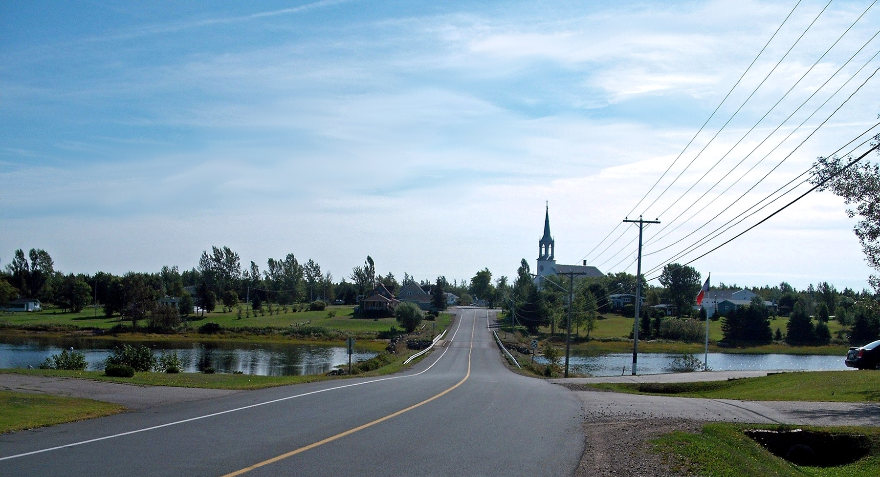 View of Saint-Simon (NB)